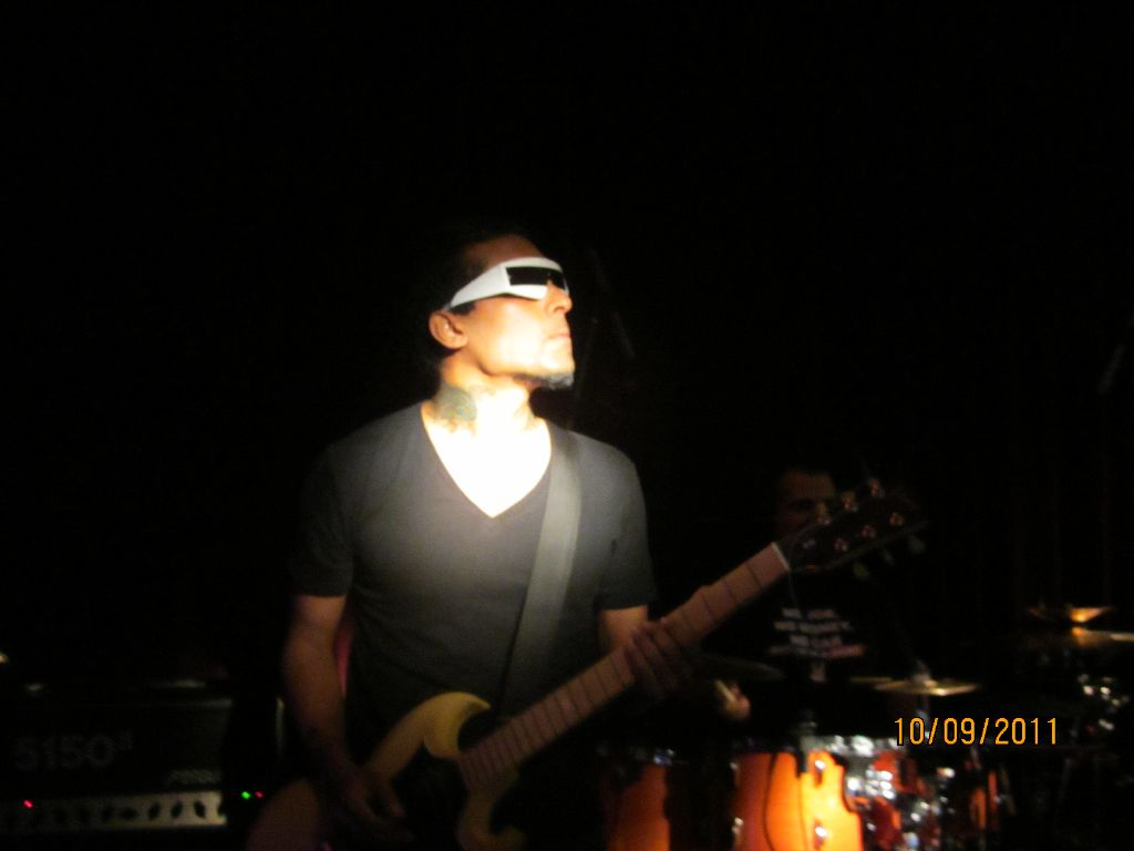 Shaair and Func live in concert at Bacchus, Bangalore, India.